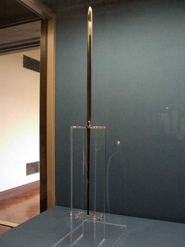 Antique Japanese (samurai)omi yari (large spear), Tokyo national museum.